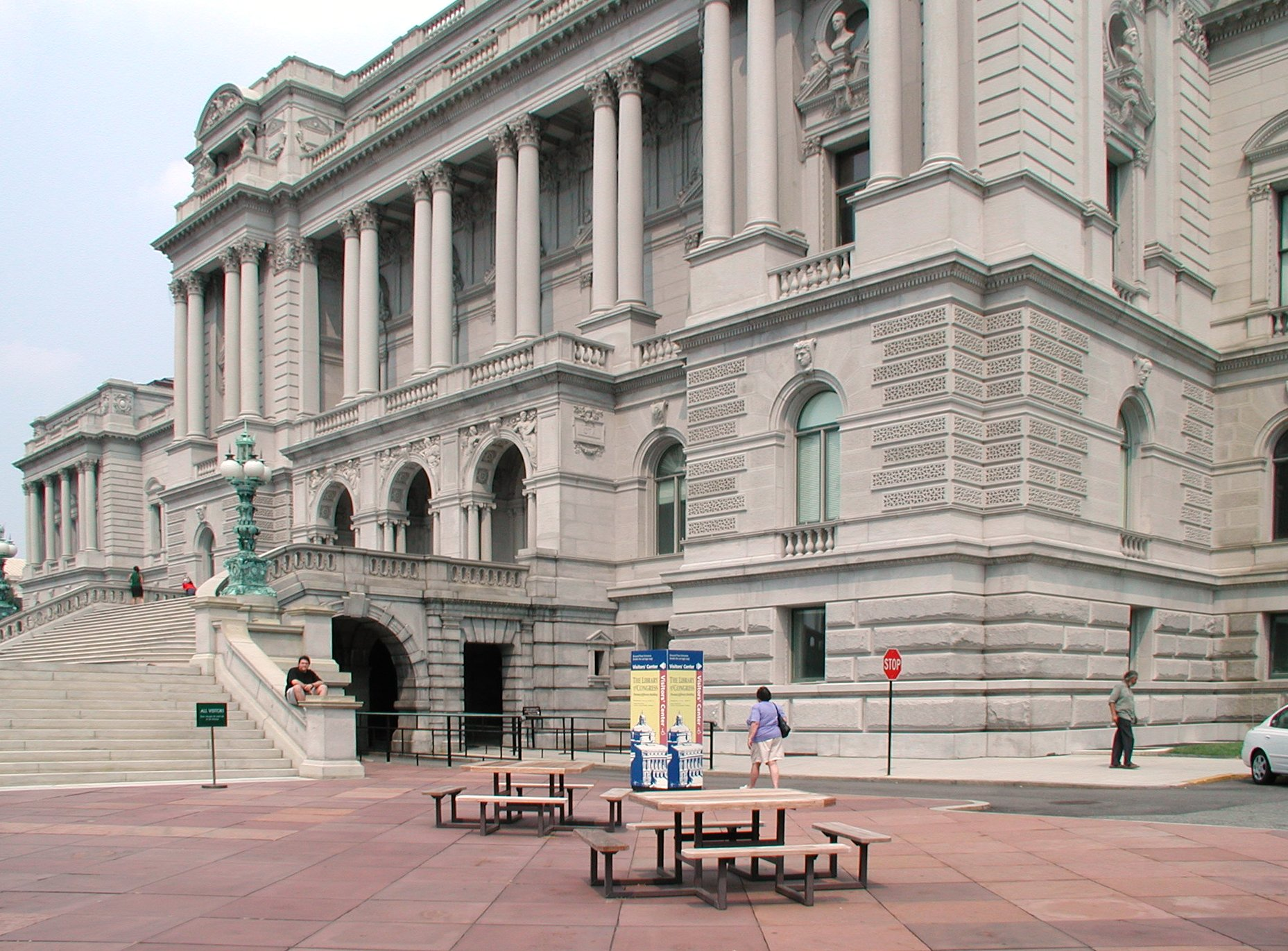 The Library of Congress, Jefferson Building, on August 12, 2002.